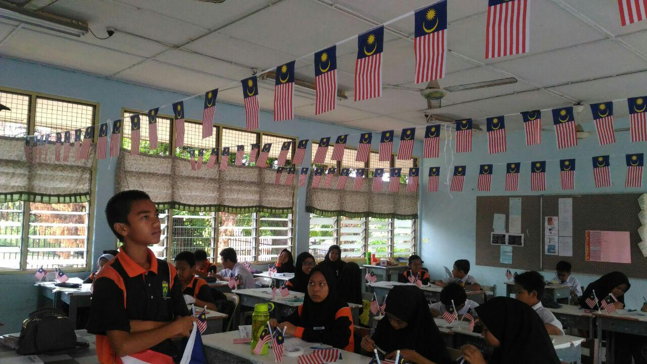 keceriaan kelas